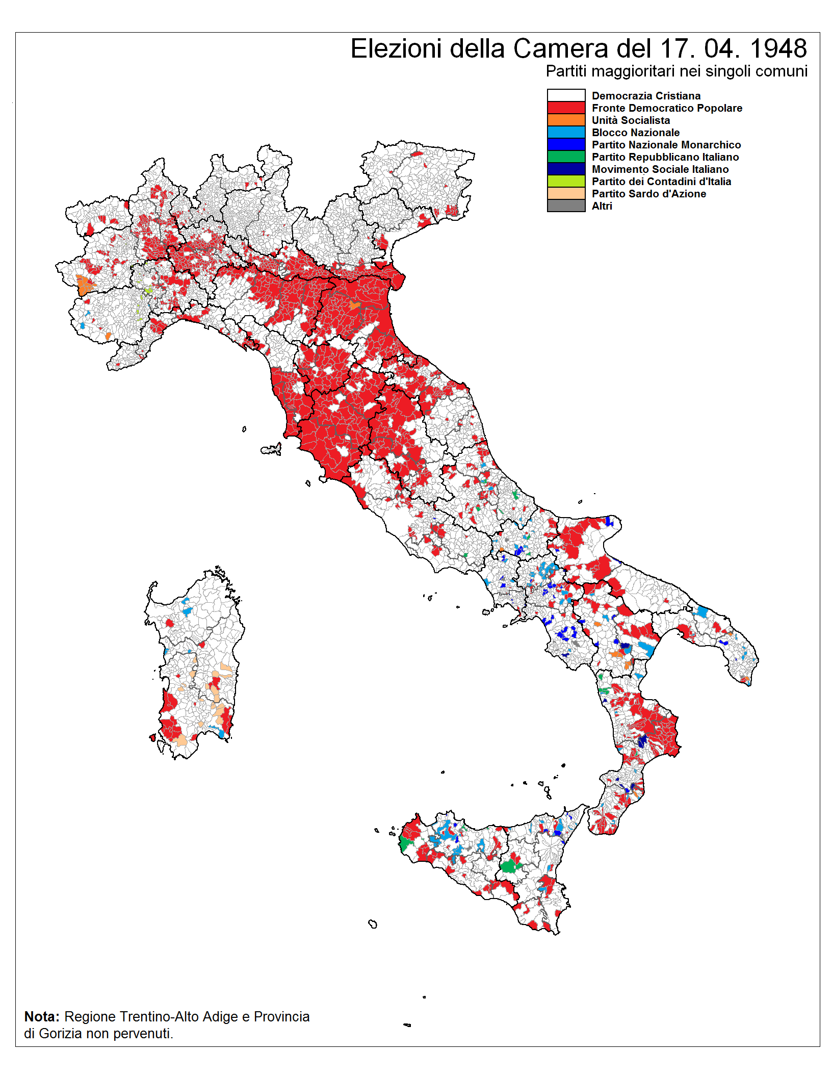 Vittoria comune per comune alle elezioni politiche italiane del 1948